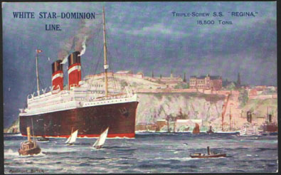 The steamer Regina when serving Dominion Line